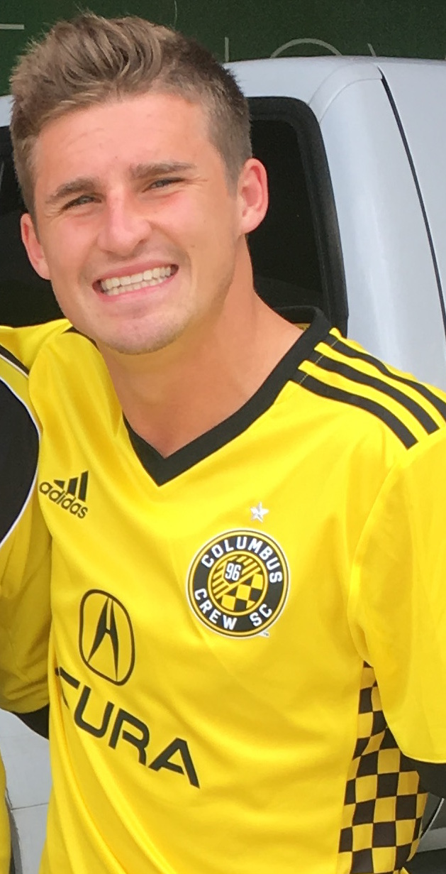 Picture of Marshall Hollingsworth at a Columbus Crew SC Meet the Team event in 2017.